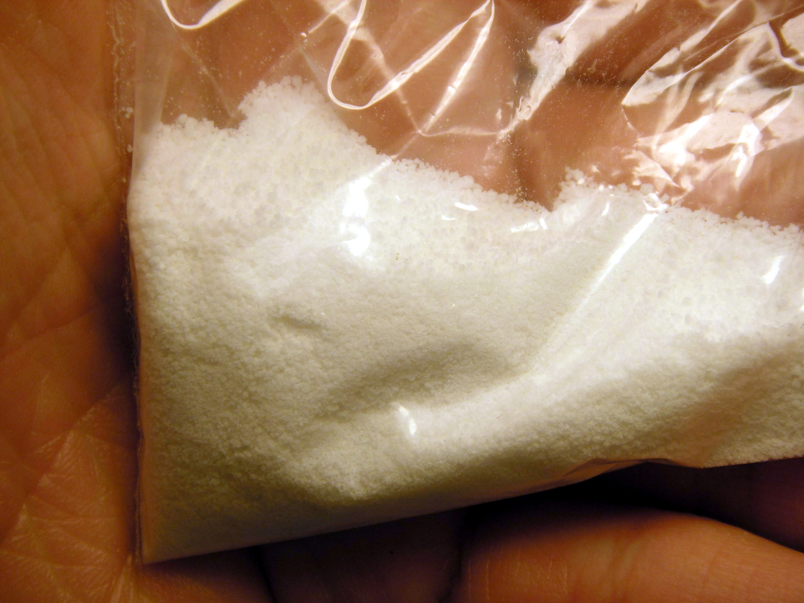 A Quarter Ounce of Molly